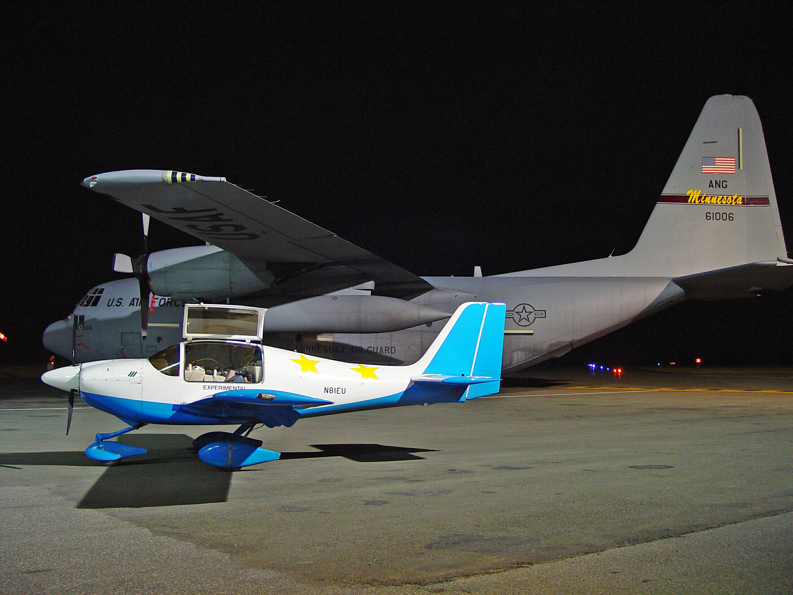 N81EU in Newfoundland after the second crossing of the Atlantic ocean